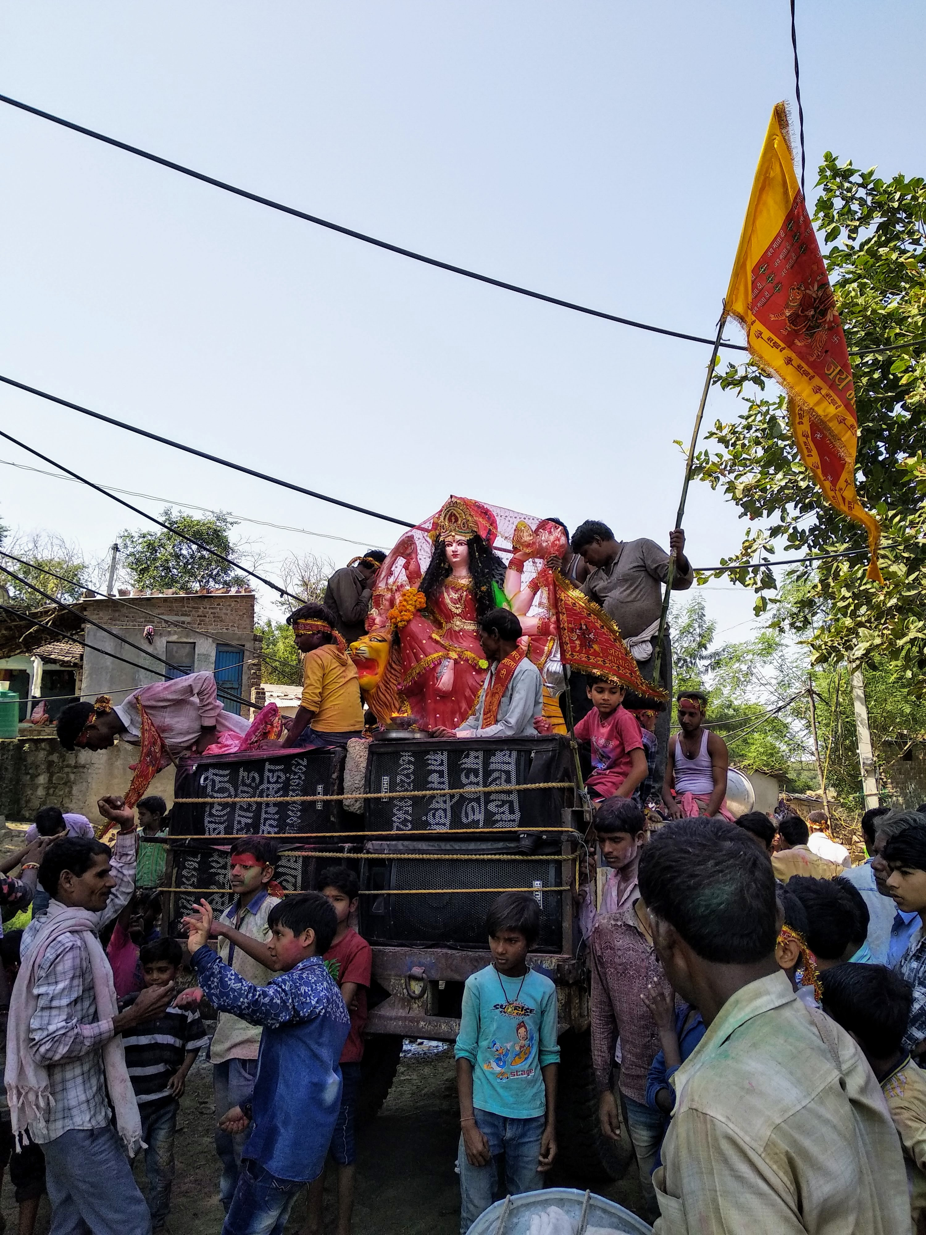 Devi Visarjan